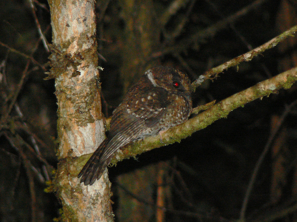 Mountain Owlet-nightjar (Aegotheles albertisi) Papua New Guinea